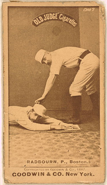 Charles Radbourn on an 1887-1890 Goodwin & Company baseball card (Old Judge (N172)). Note: I'm guessing that he is the player tagging the baserunner, but I'm not sure